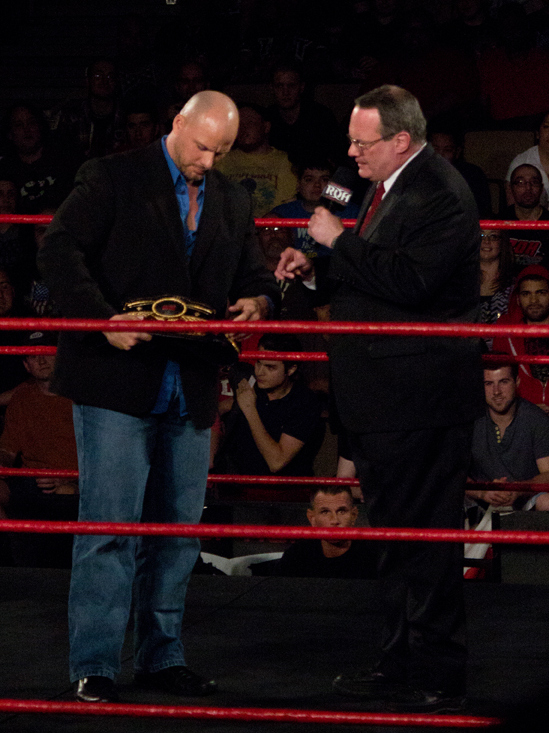 Jim Cornette and Adam Pearce (the NWA World Champion) at Ring of Honor's Showdown in the Sun pay-per-view on March 30, 2012. Cropped from original.